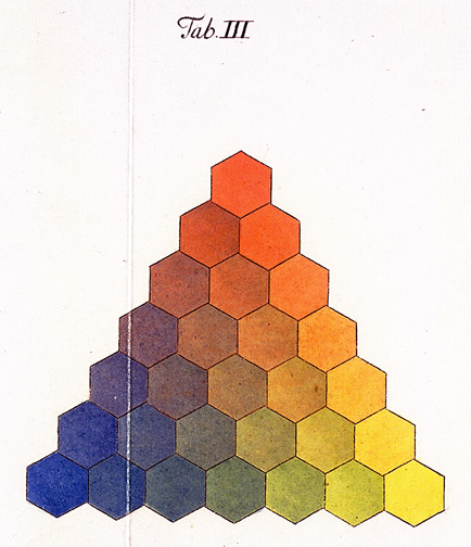 Lichtenberg's replication of Tobias Mayer's color triangle